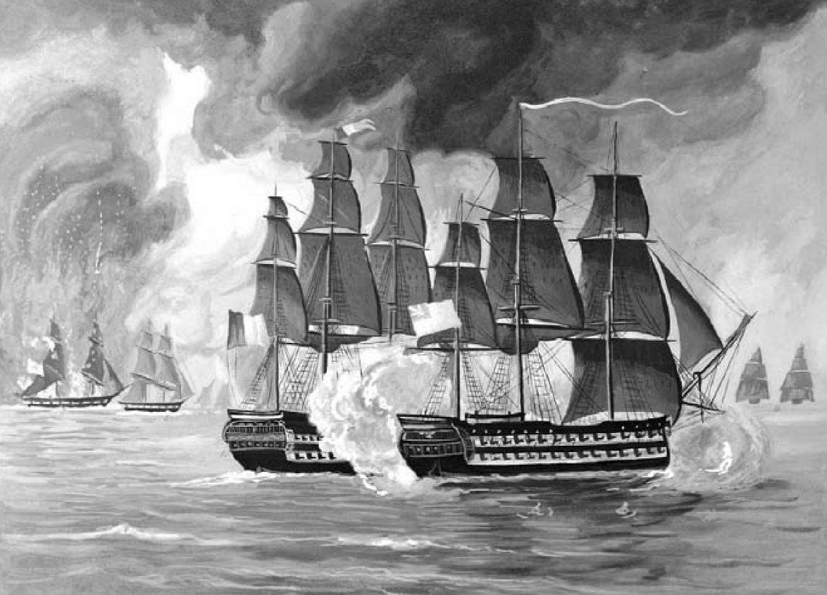 Battle of Pirano (1812).